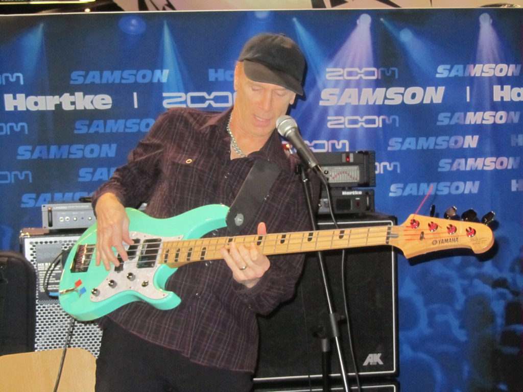 Billy Sheehan wows the crowds during NAMM 2011 Yamaha ATTITUDE LTDII Billy Sheehan signature 25th Anniversary Model ? (Green body with black PU cover)